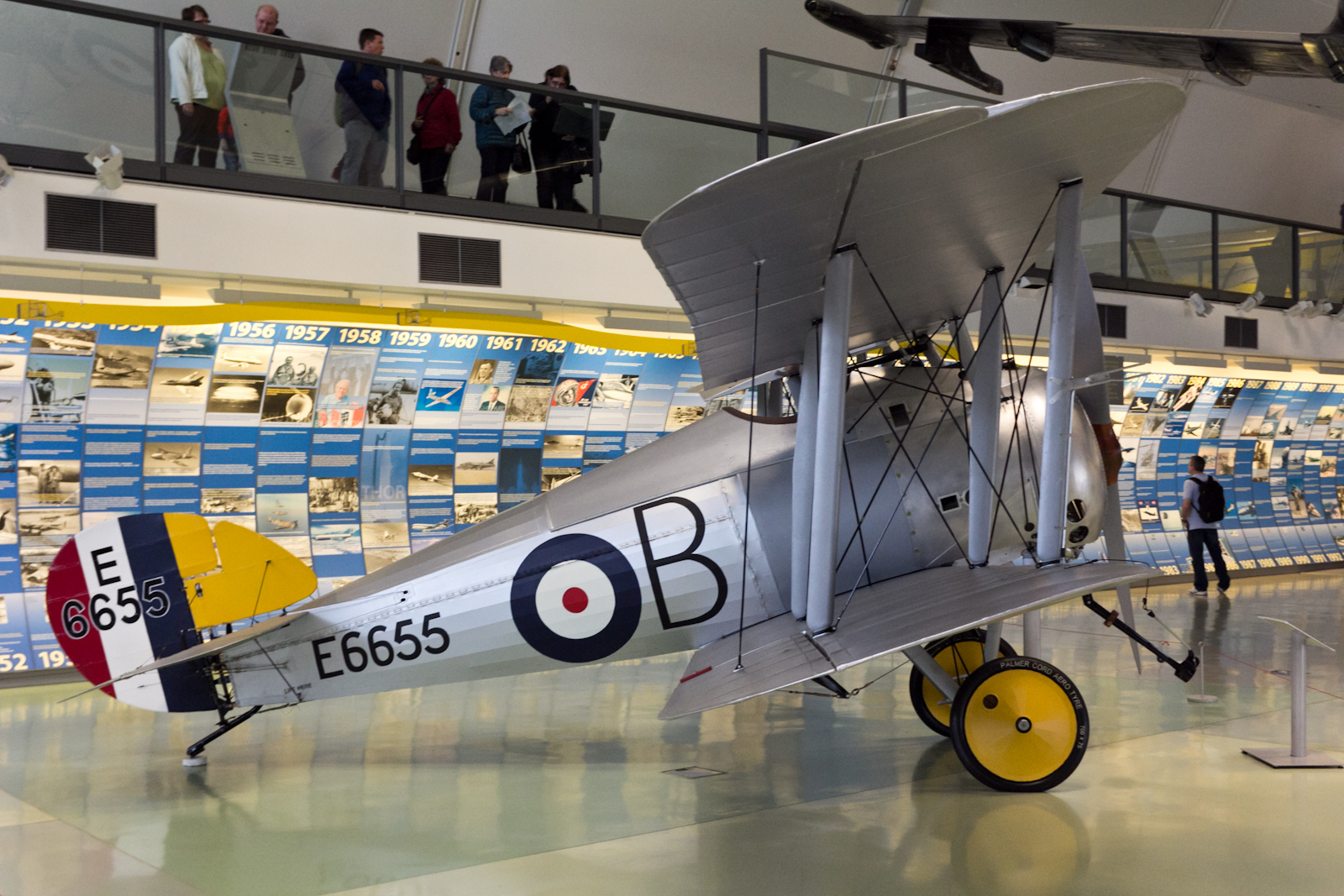 Sopwith Snipe at the RAF Museum in Hendon